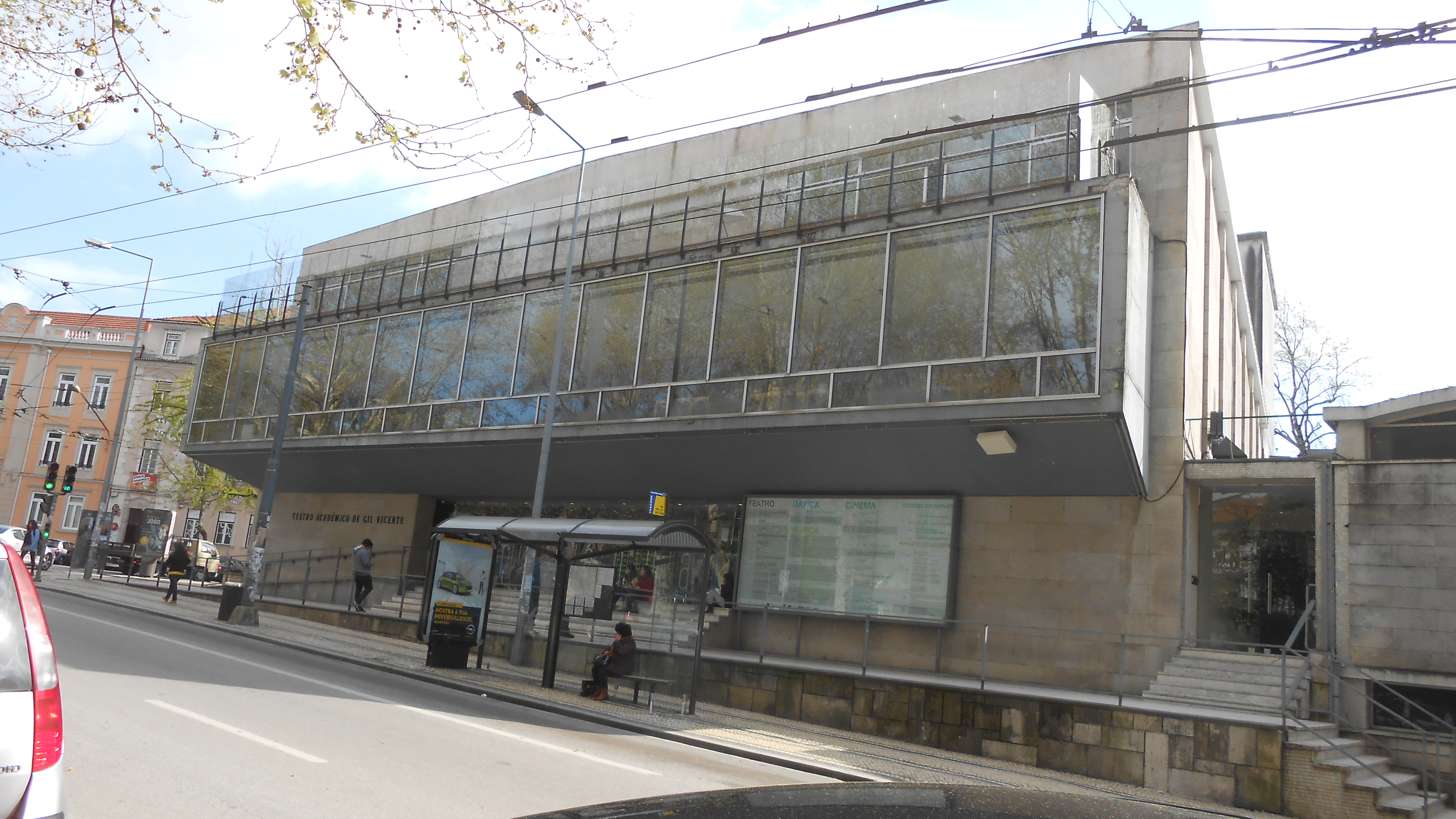 The Teatro Académico Gil Vicente in Coimbra